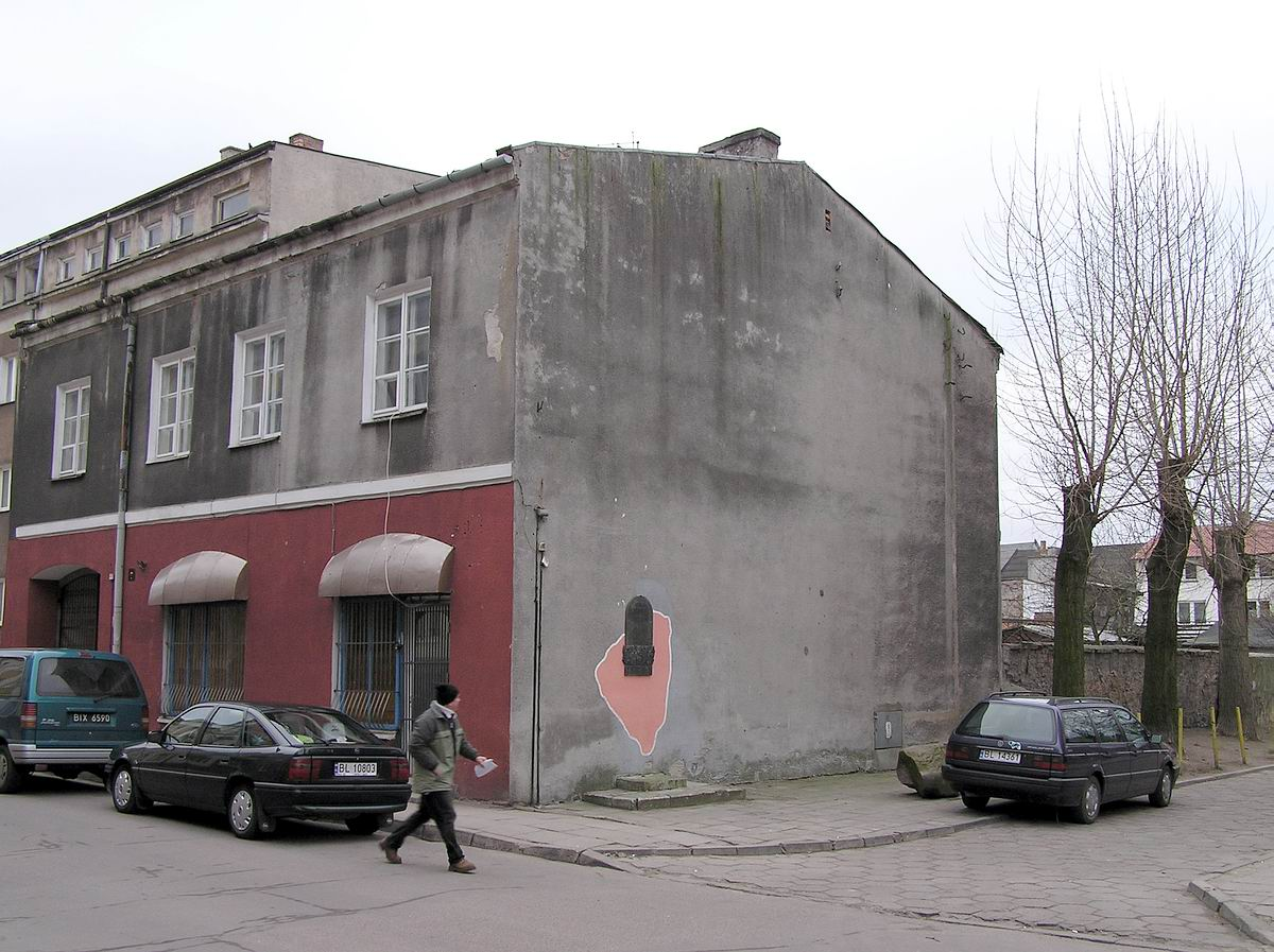 Jude district, Sentaroska street (place where Manor of Dukes of Mazovia and Polish Kings Manor where built, Łomża in Poland